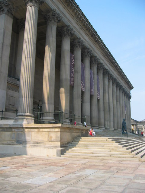 St George's Hall, Liverpool